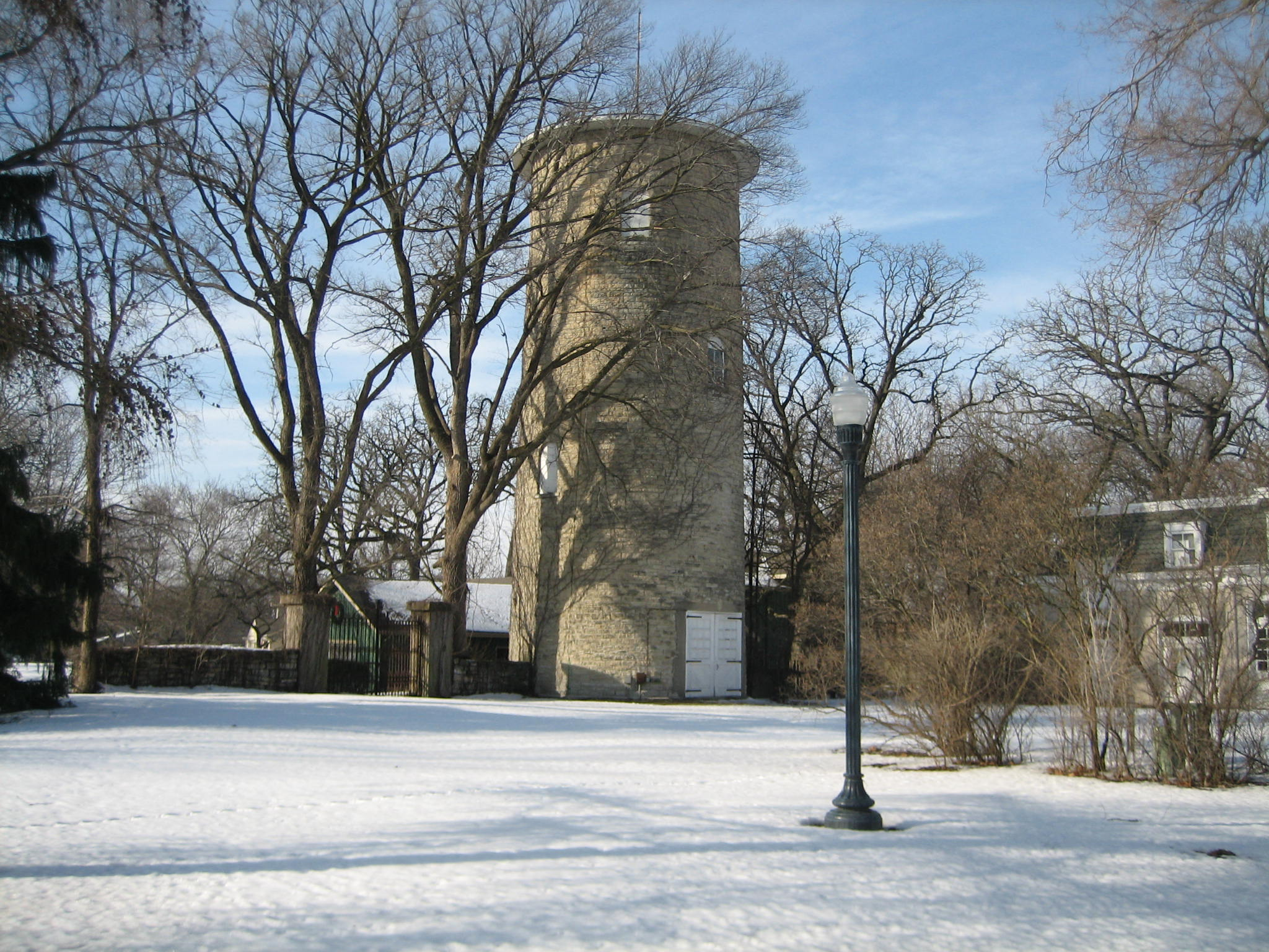 Ellwood House. DeKalb, Illinois. National Register of Historic Places. Semi-circular bay window addition to dining room, c. 1898.